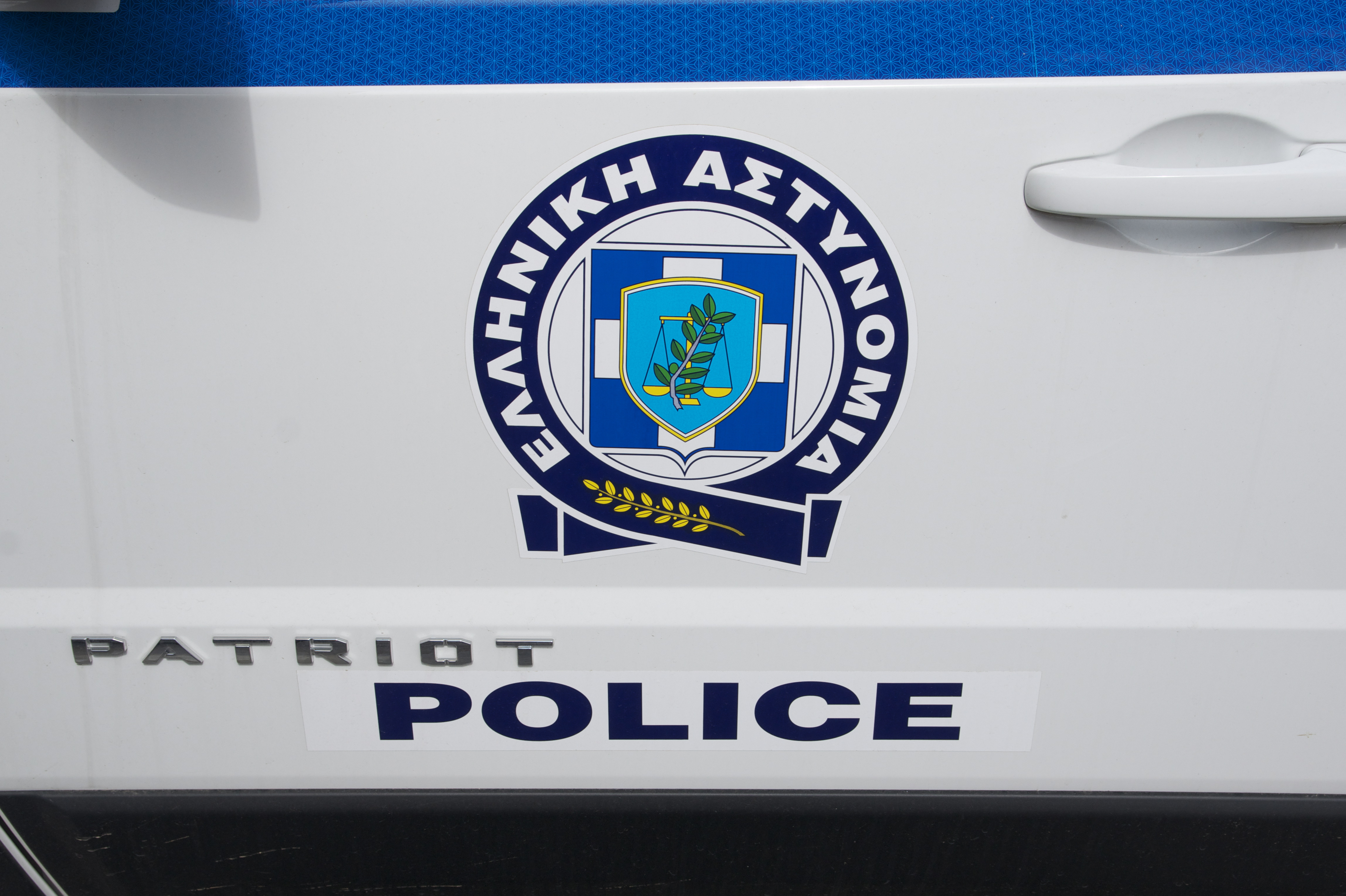 Detail of a greek police car.